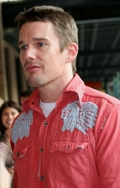 Ethan Hawke at the 2007 premiere of The Hottest State in Austin, Texas